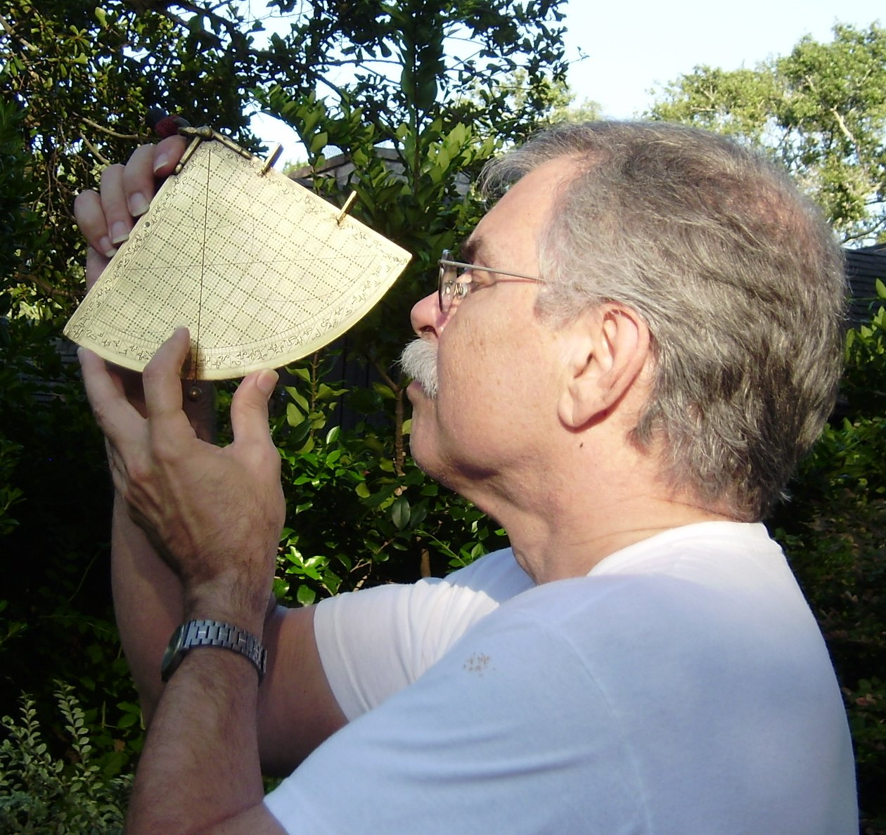 Picture of Me (G.P.Young) sighting the pole star with a sinecal quadrant